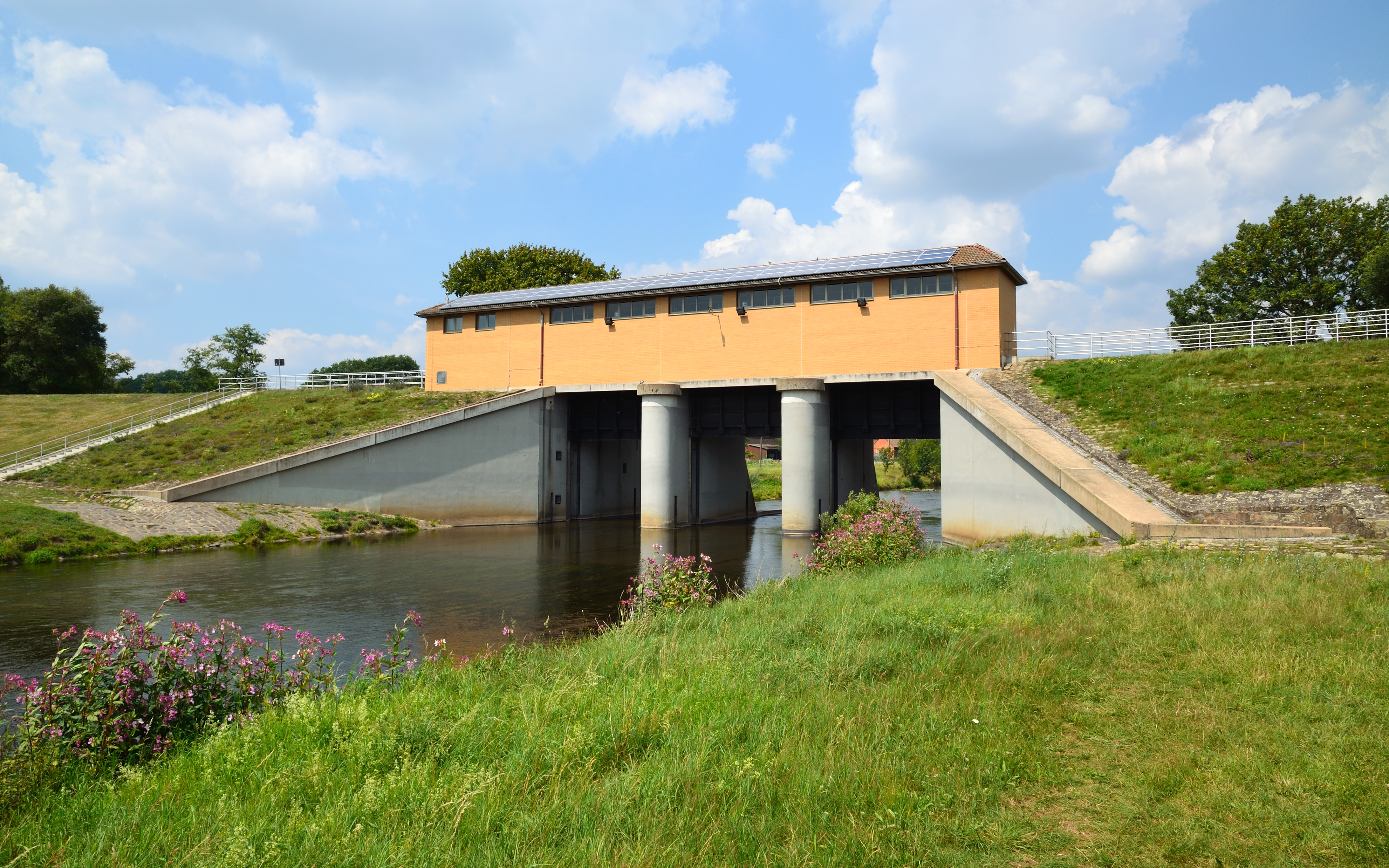 Barrage of river Ohm near Niederwald, Kirchhain